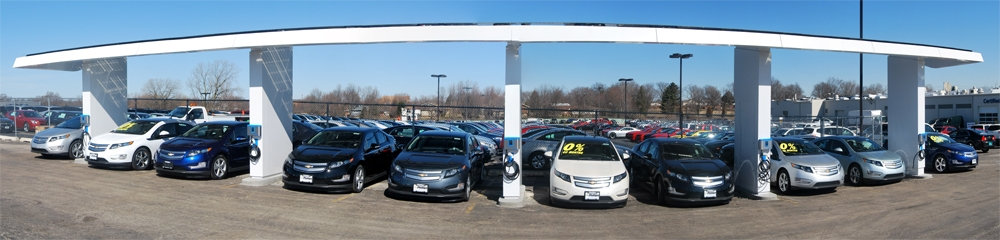 This is a picture of Phillips Chevrolet in Frankfort, IL's 8 stall solar charging station for electric vehicles. It is the first auto dealership solar charging station constructed in Illinois. It has five charging stations and is free to the public